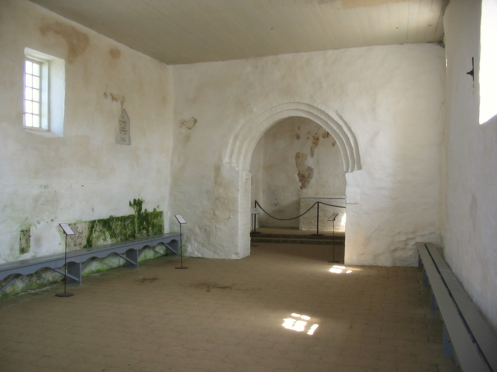 The interior of Mårup Kirke in 2004